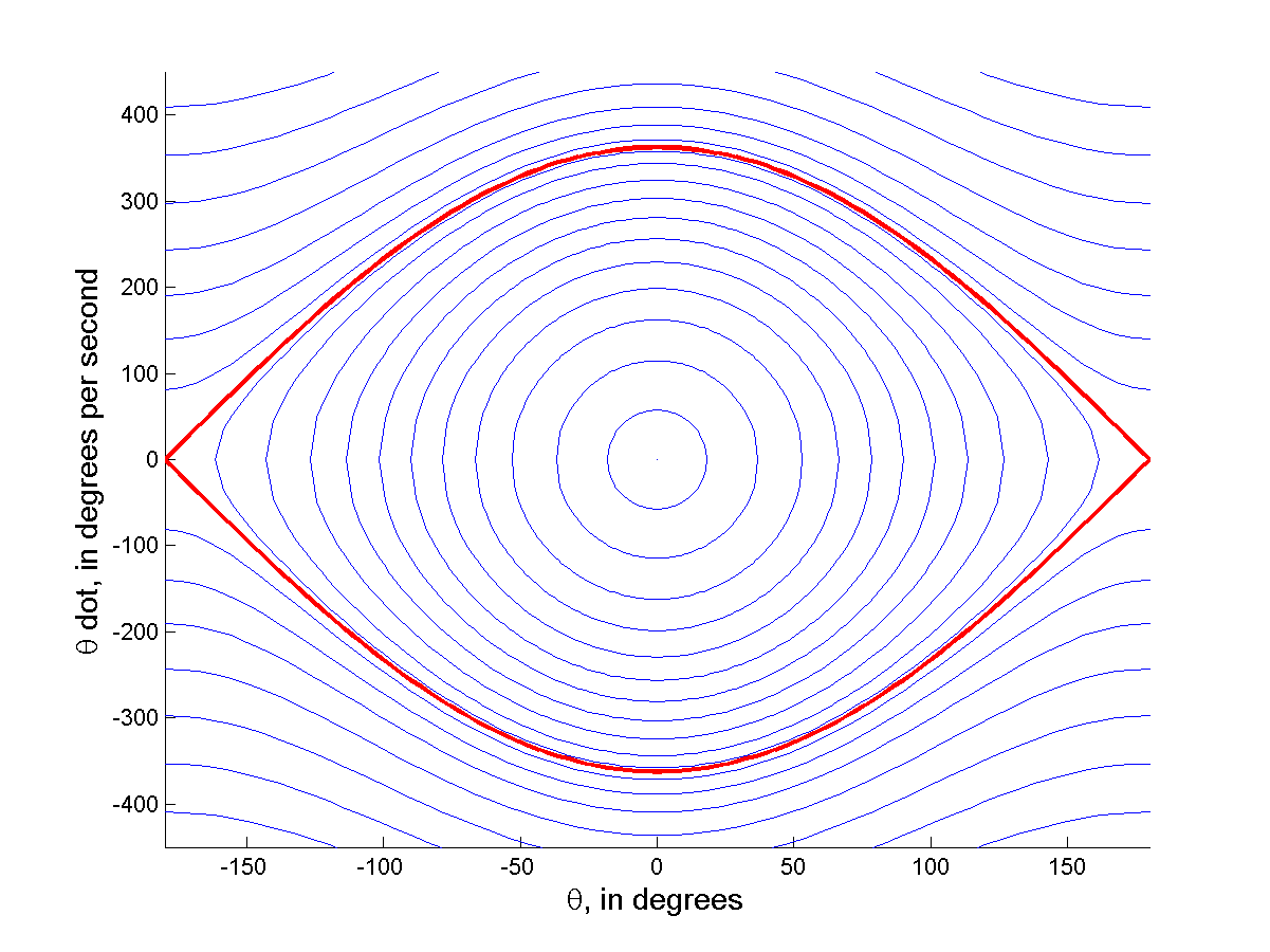 The phase space portrait of a simple pendulum, with the separatrix shown in red. This figure was plotted assuming the length of the pendulum is 1 metre, and the gravitational acceleration is 10 metres per second squared. (Note - I'm British so it is metre, not meter)